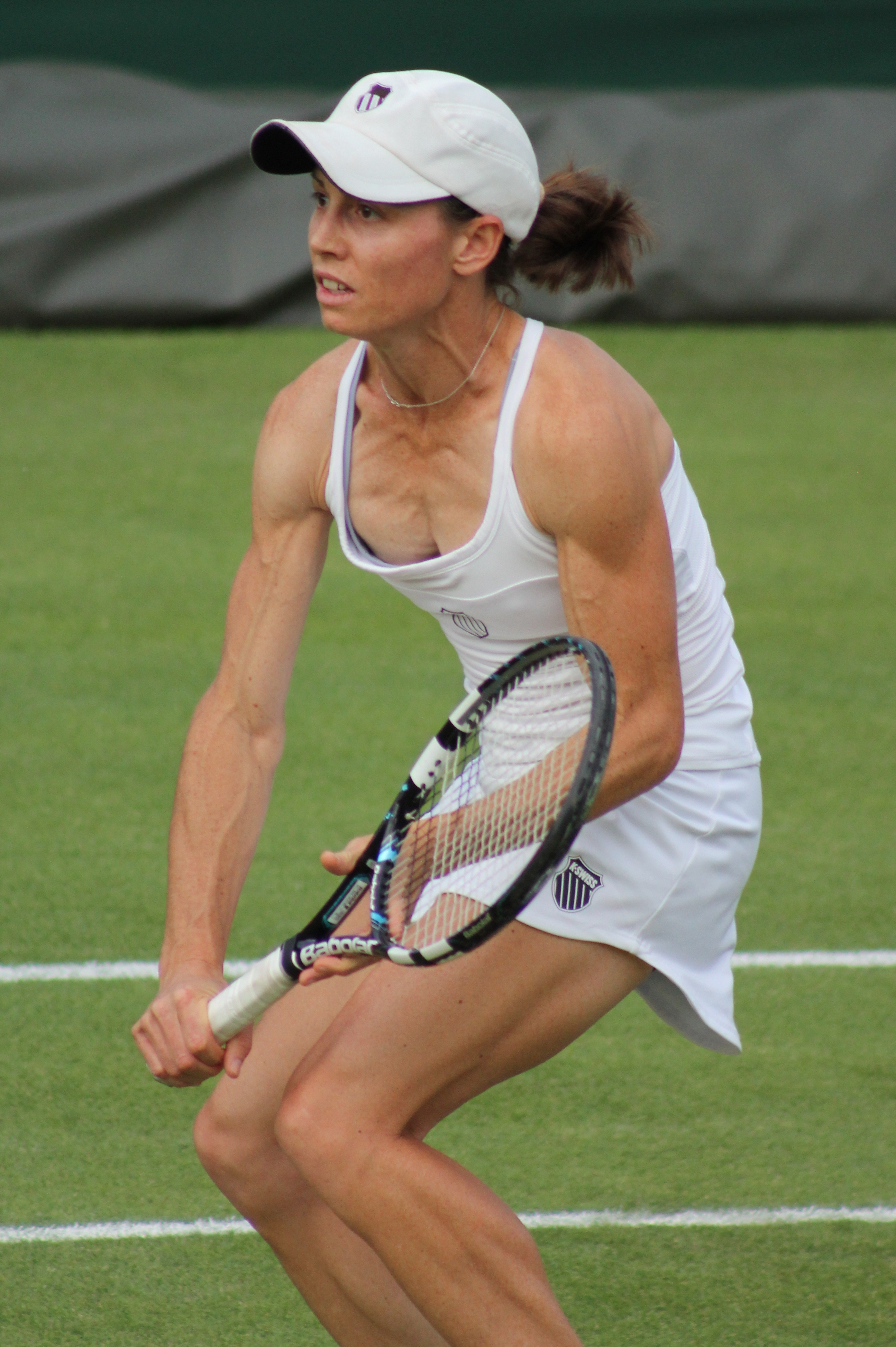 Cara Black at 2013 Wimbledon